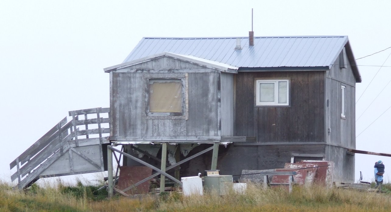 A typical contemporary Native Alaskan house located in Point Lay, Alaska